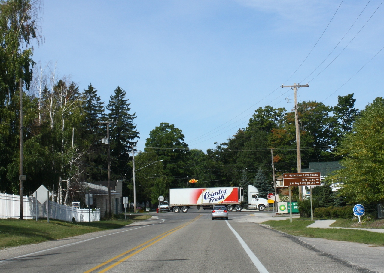 Looking north at the western terminus of M-72 (Michigan highway) in Empire, Michigan.